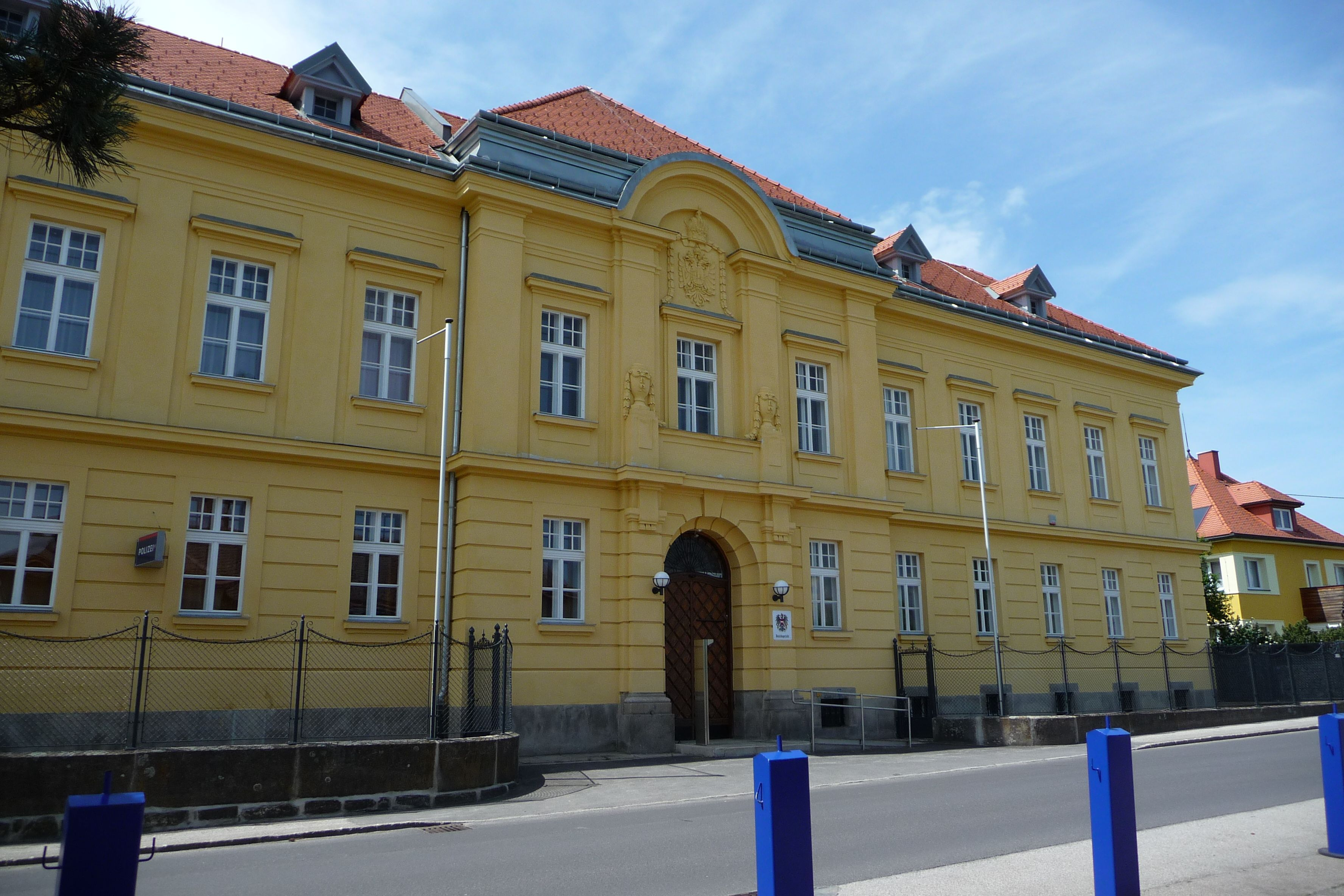 Police and district court of Bad Leonfelden